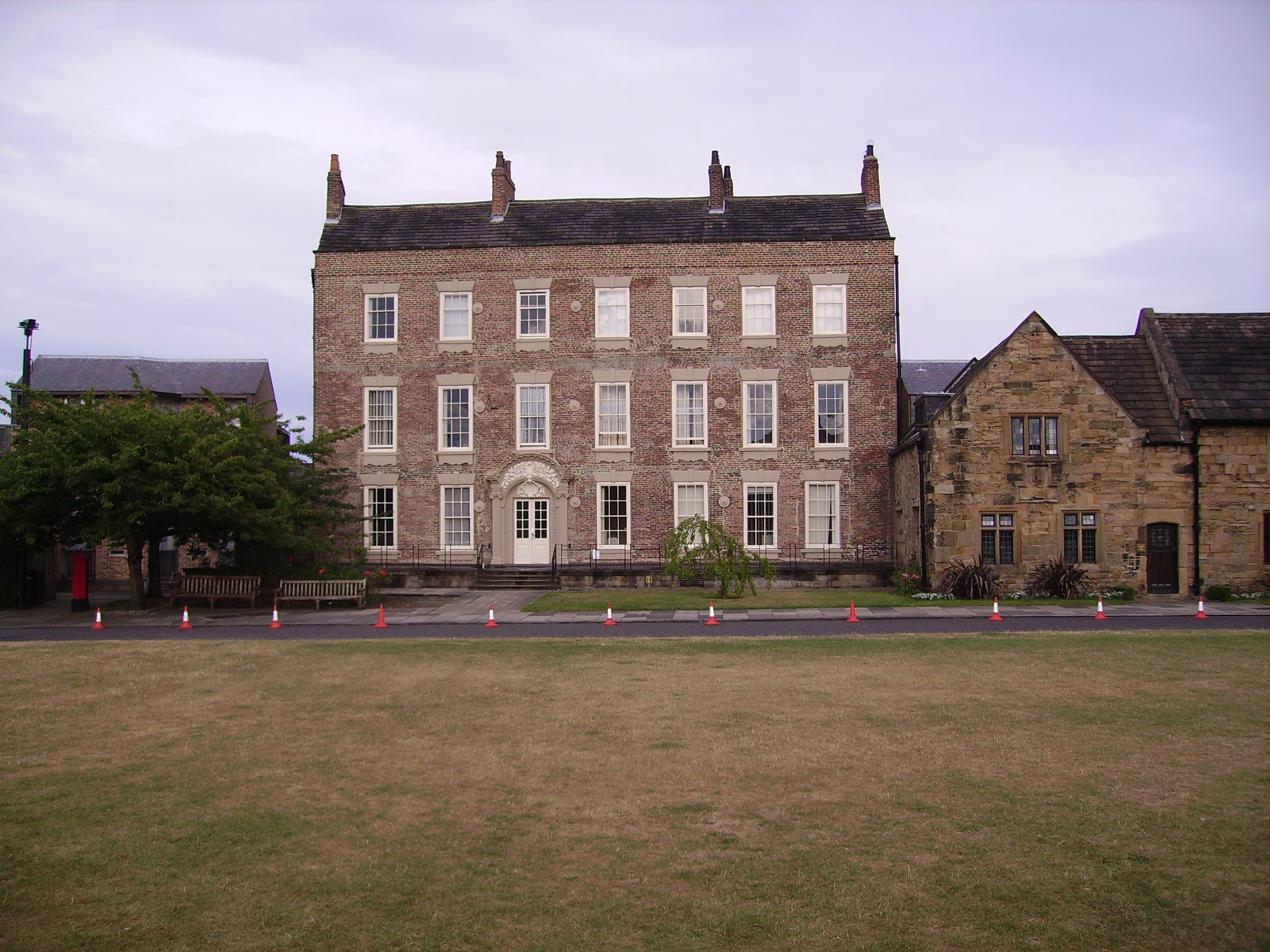 view of Durham, United Kingdom